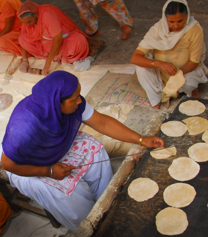 Women in Shalwar kameez cooking rotis in the kitchen of Golden temple in Amritsar India